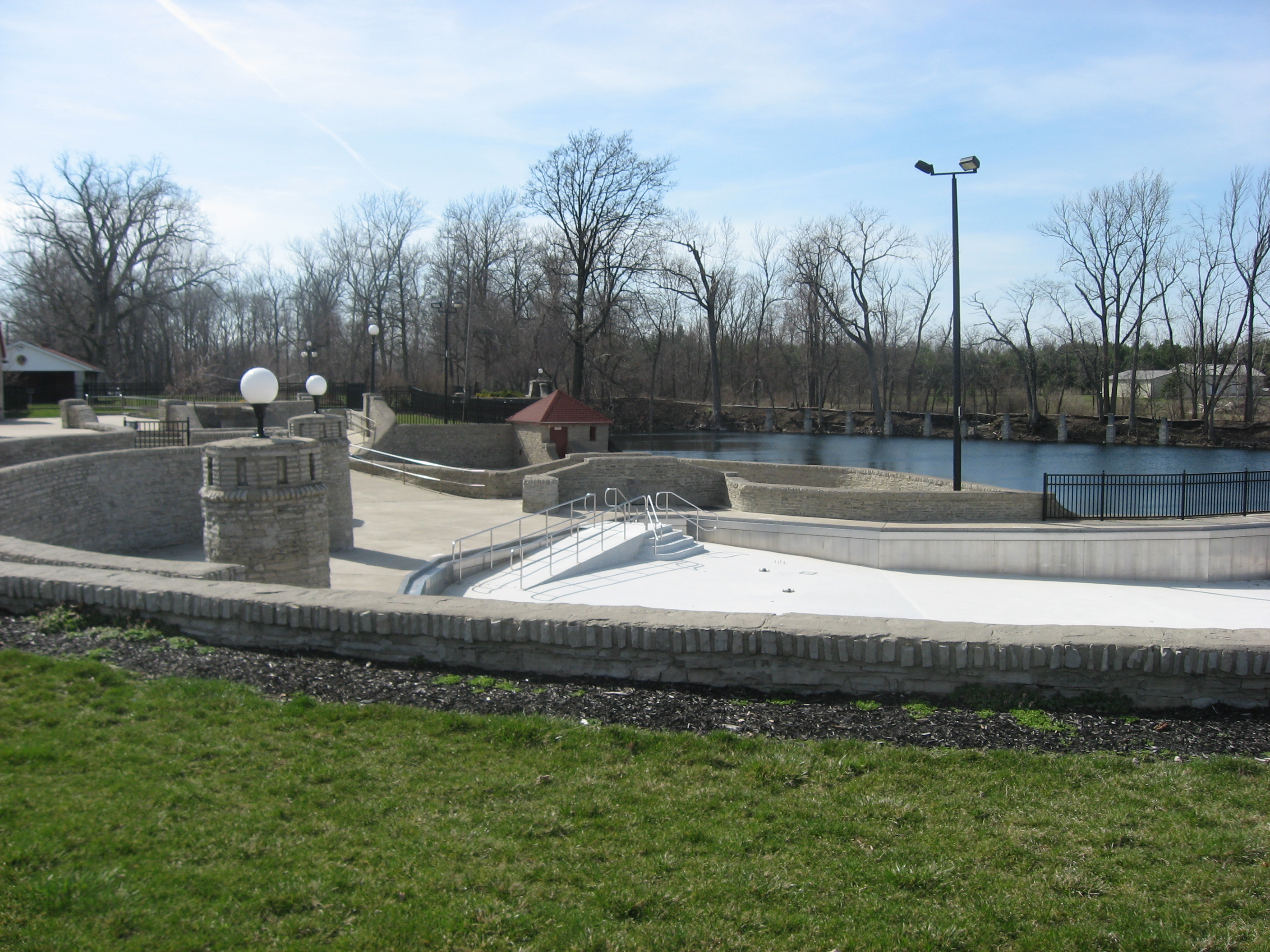 Overview from the east-southeast of the Columbus Grove Municipal Pool, located at 47510 Road P northeast of Columbus Grove in Pleasant Township, Putnam County, Ohio, United States. Built in 1935, it is listed on the National Register of Historic Places.